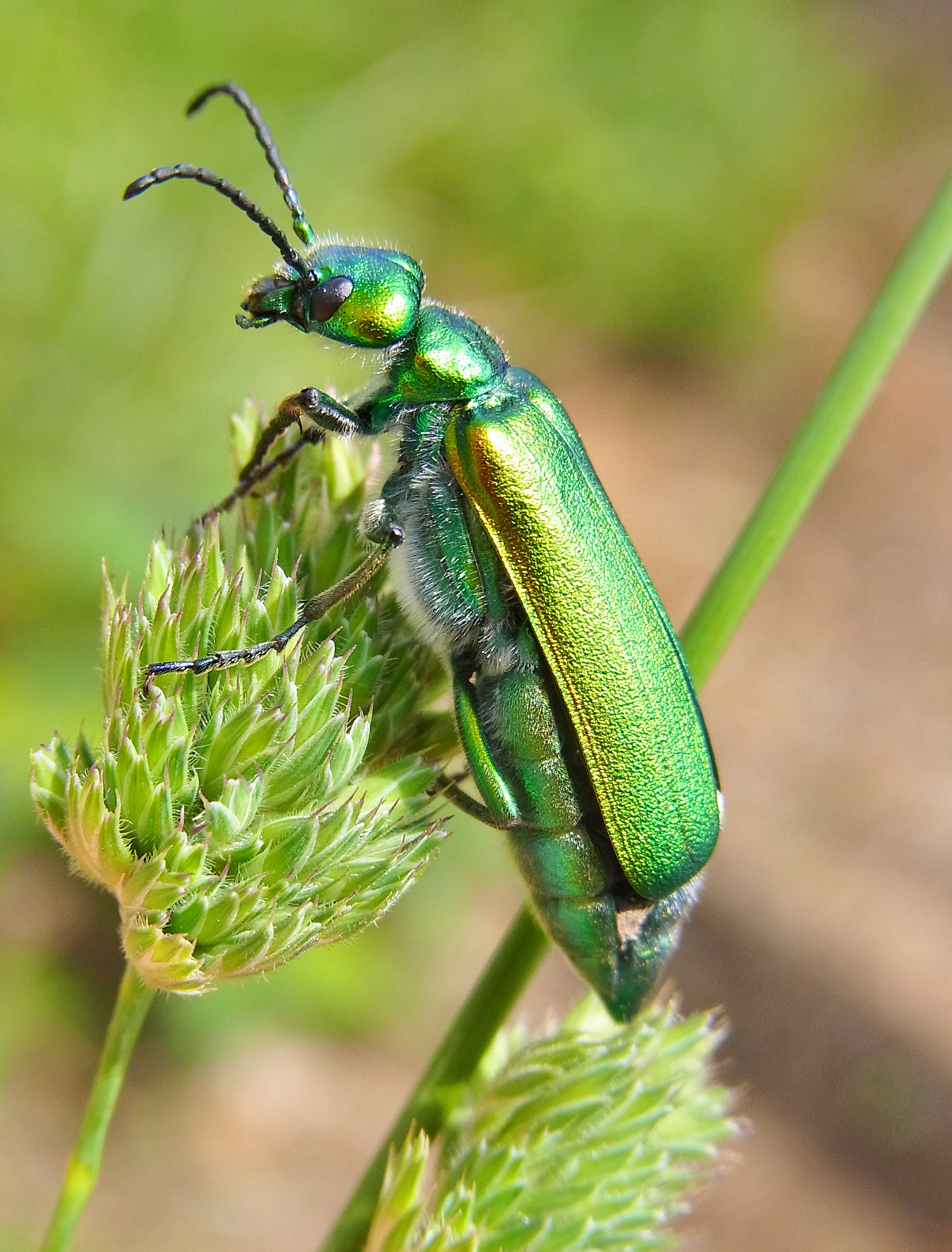 Lytta vesicatoria from Southern France, north-east of Carcassonne